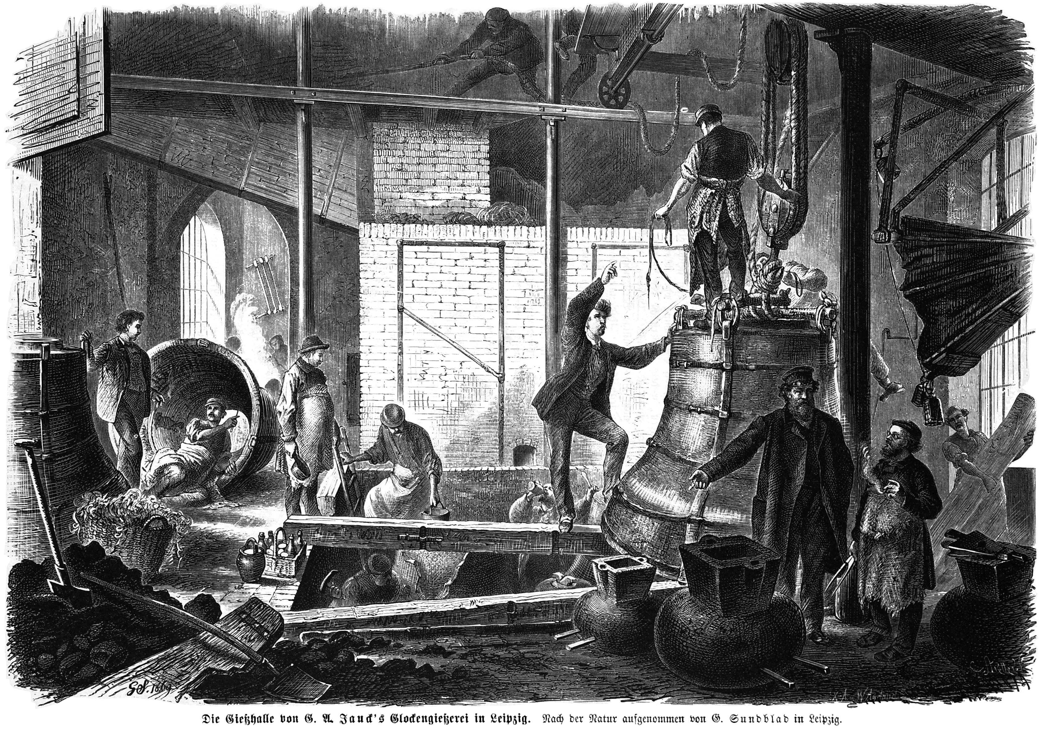 caption: "Die Gießhalle von G. A. Jauck’s Glockengießerei in Leipzig. Nach der Natur aufgenommen von G. Sundblad in Leipzig."